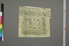 The Korean Bell of Tsushima Kokubunji Temple